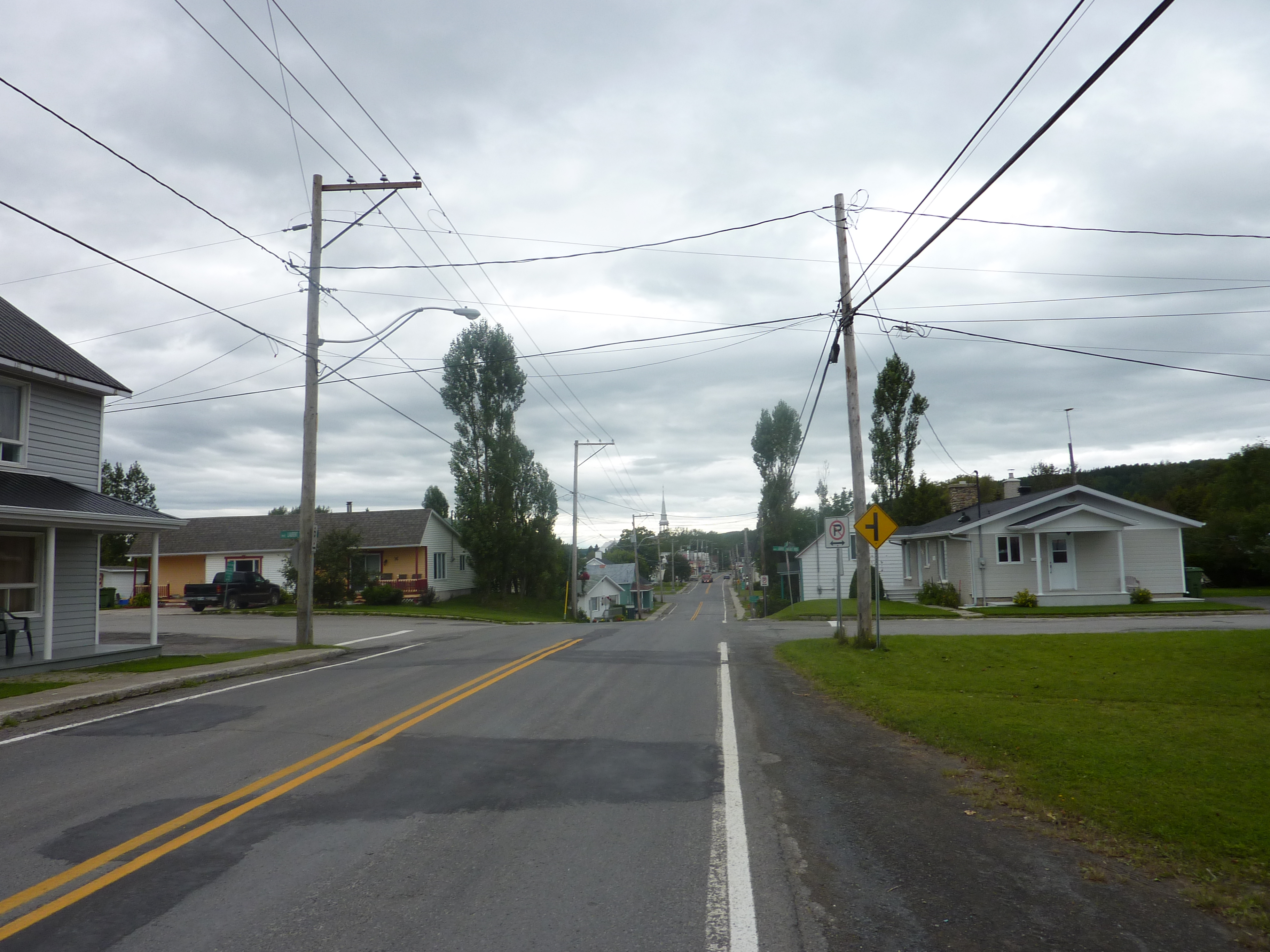 Sainte-Angèle-de-Mérici, Qc